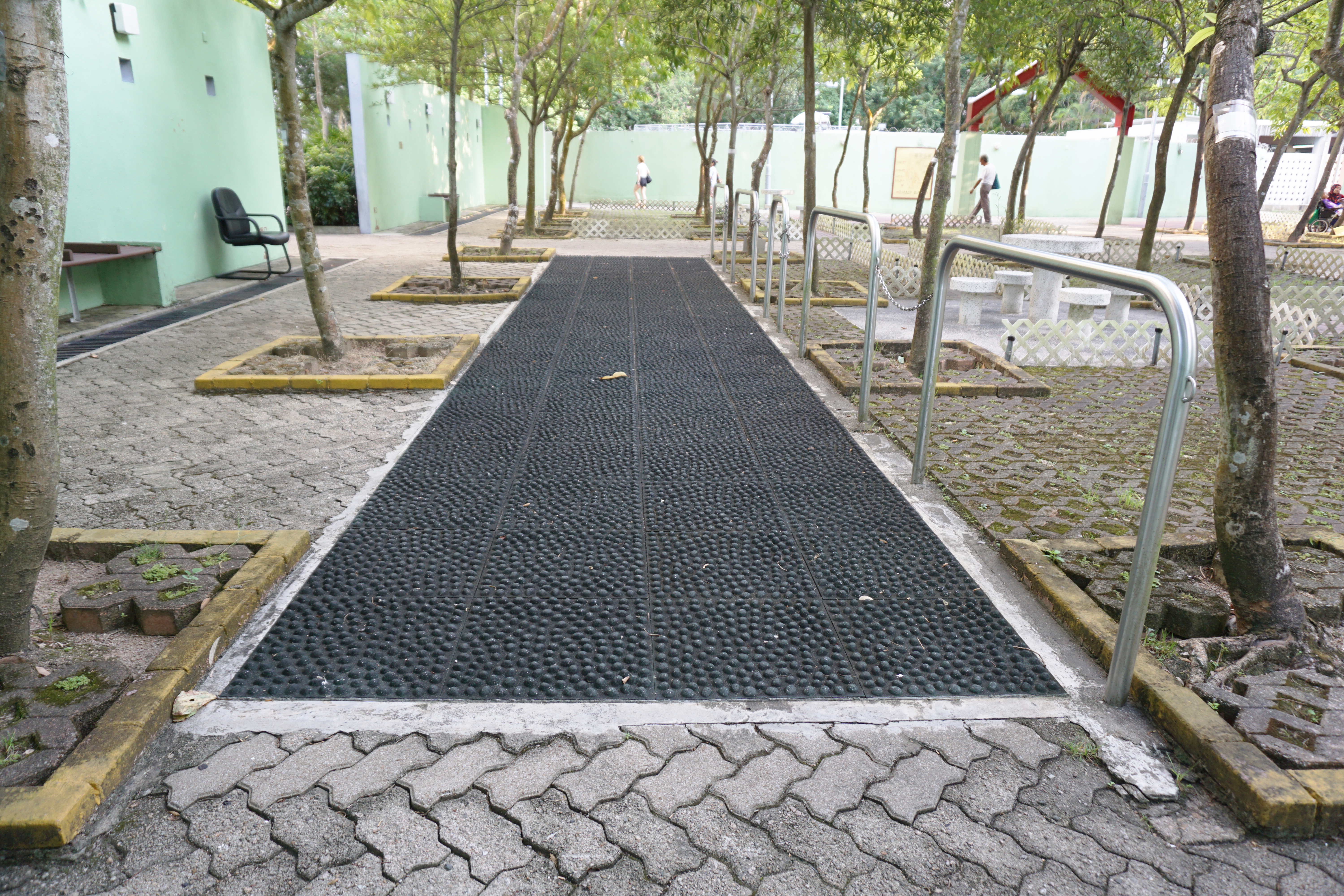 Chevalier Garden in Tai Shui Hang, Hong Kong.